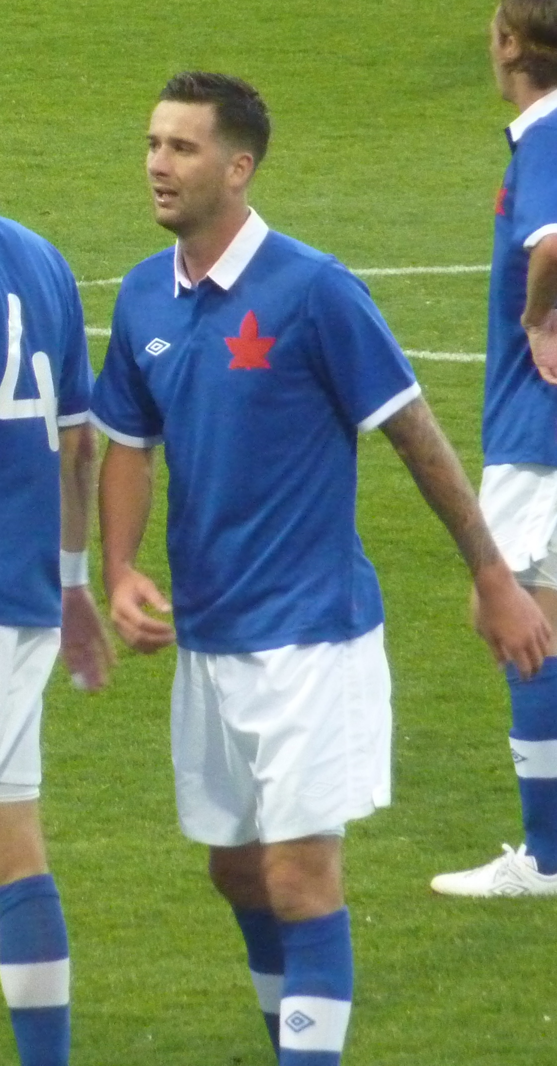 David Edgar during the international friendly against USA, June 3, 2011